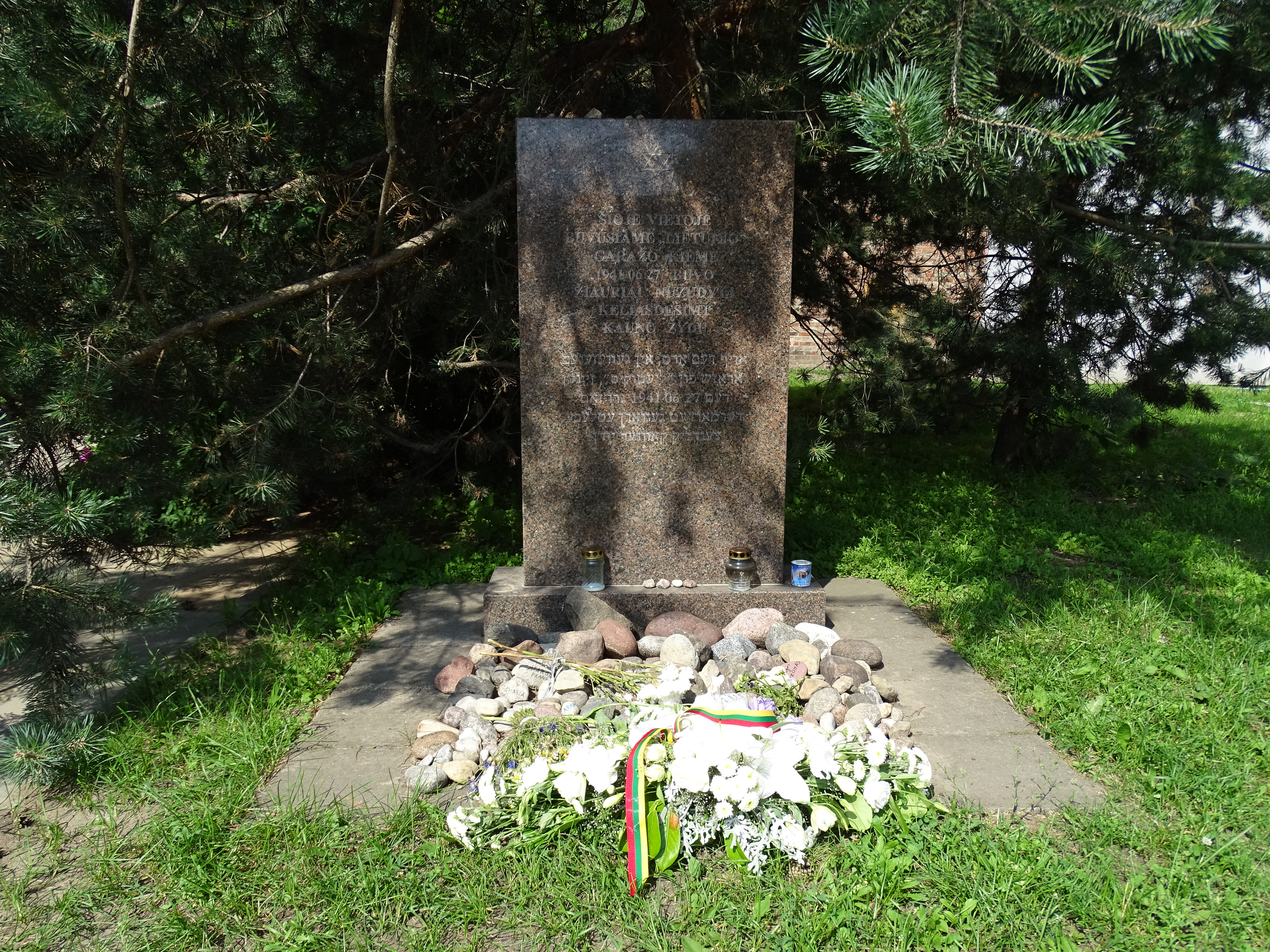 Memorial at Site of Lietukis Garage Massacre of Jewish Men - Kaunas - Lithuania - 01